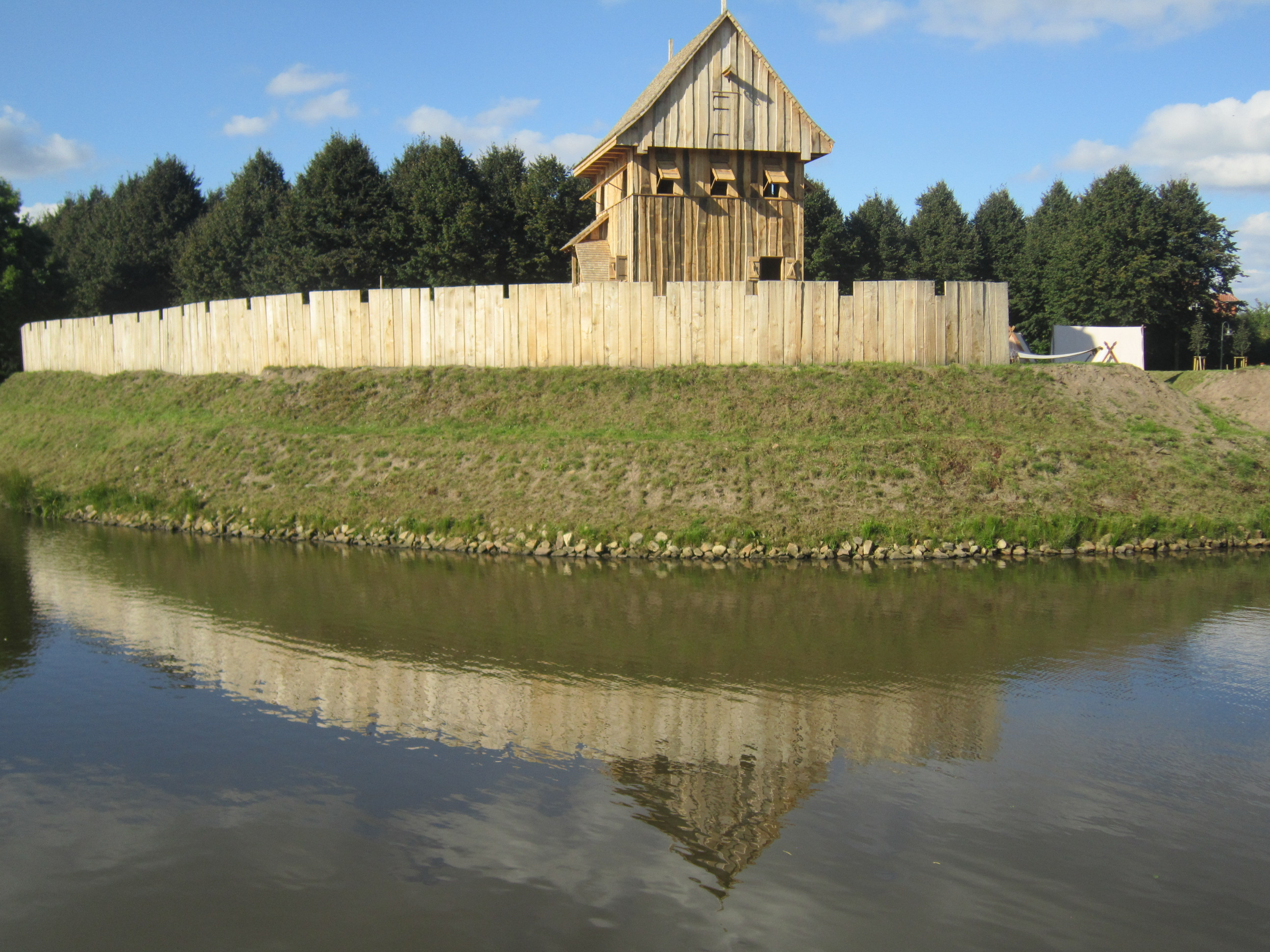 Castle tower of Castrum Vechtense in Vechta during the "Burgmannen-Tage" (medieval festival) 2013